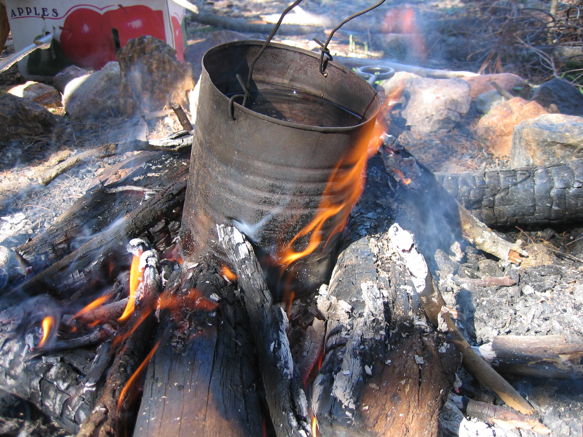 A billycan on a campfire. Author's caption: "Some Billy Tea after a hard morning ride".